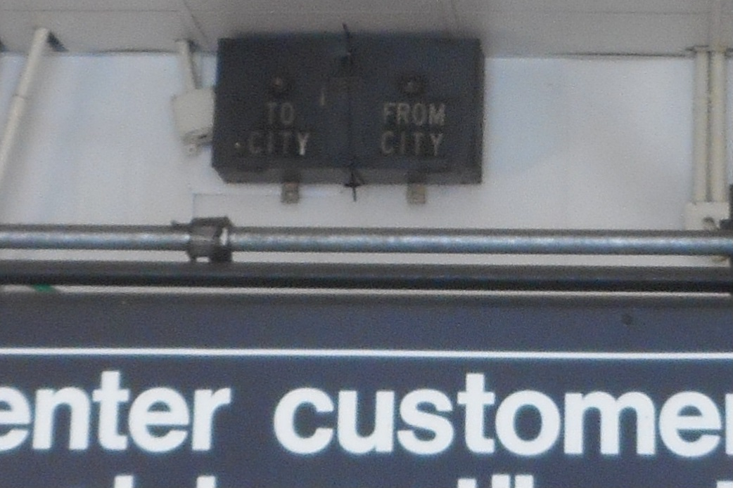 An unusual relic within the Pelham Parkway (IRT Dyre Avenue Line) subway station; an old-fashioned lighted sign reading "TO CITY" on the left, and "FROM CITY" on the right located behind the turnstiles. I want to believe this sign indicating which trains would be going in which direction is a by product of when the station was an interurban station of the New York, Westchester and Boston Railway, but I've seen lighted signs on other subway stations like this one, this one, and others that are outdated and it gives me a lot of doubts that they might be that old. UPDATE: An inquiry with a ticket attendant on June 22, 2016 confirmed that this sign is in fact from the NYW&B.